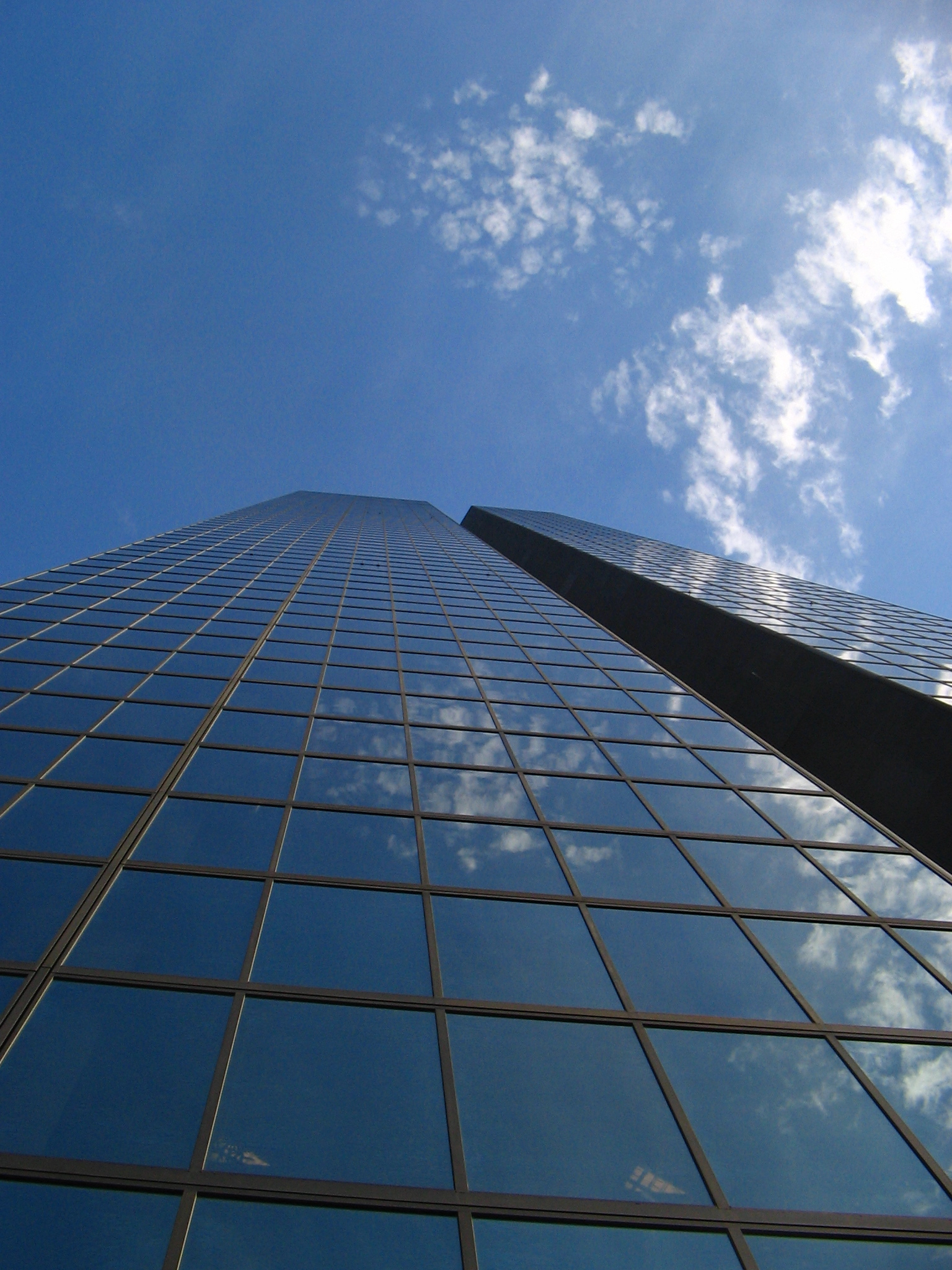 The sky reflected on the John Hancock Tower